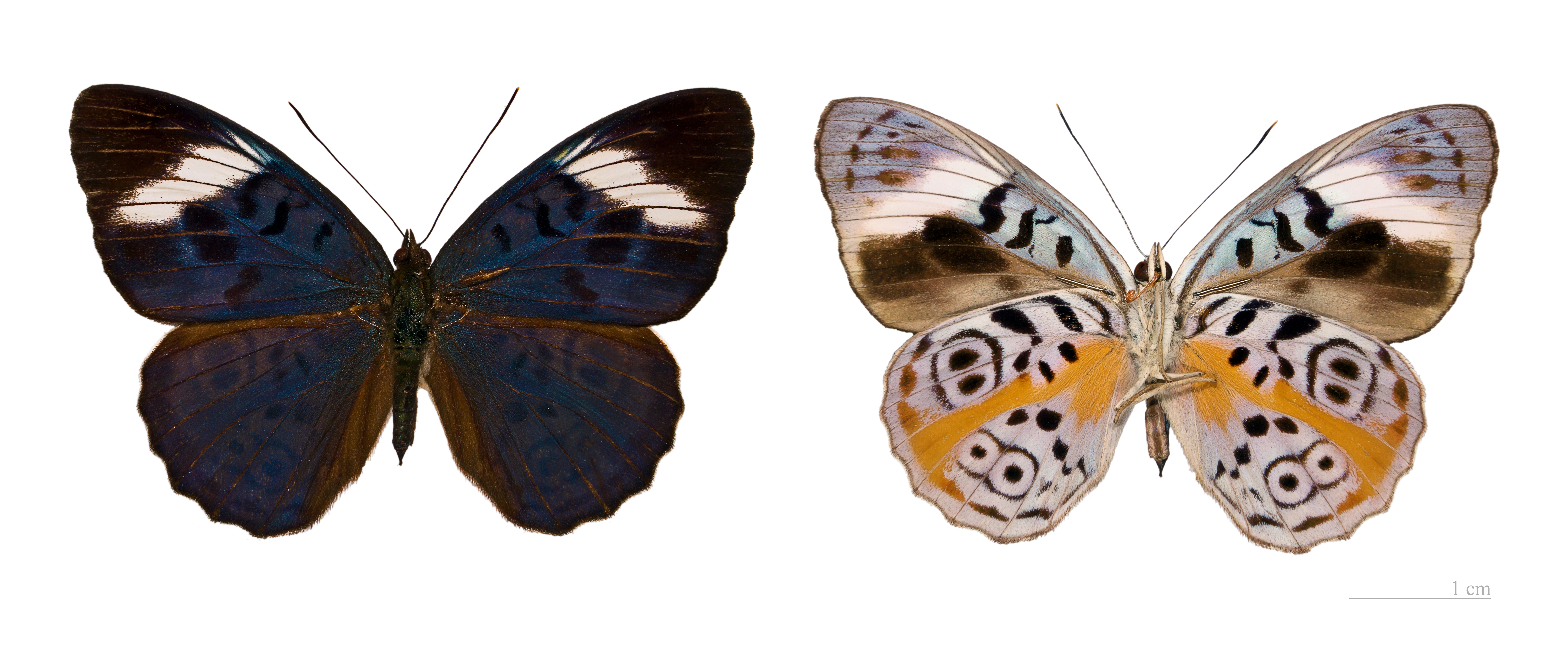 ♂ - Two views of same specimen Locality : Cacao, Crique Baguot, French Guiana